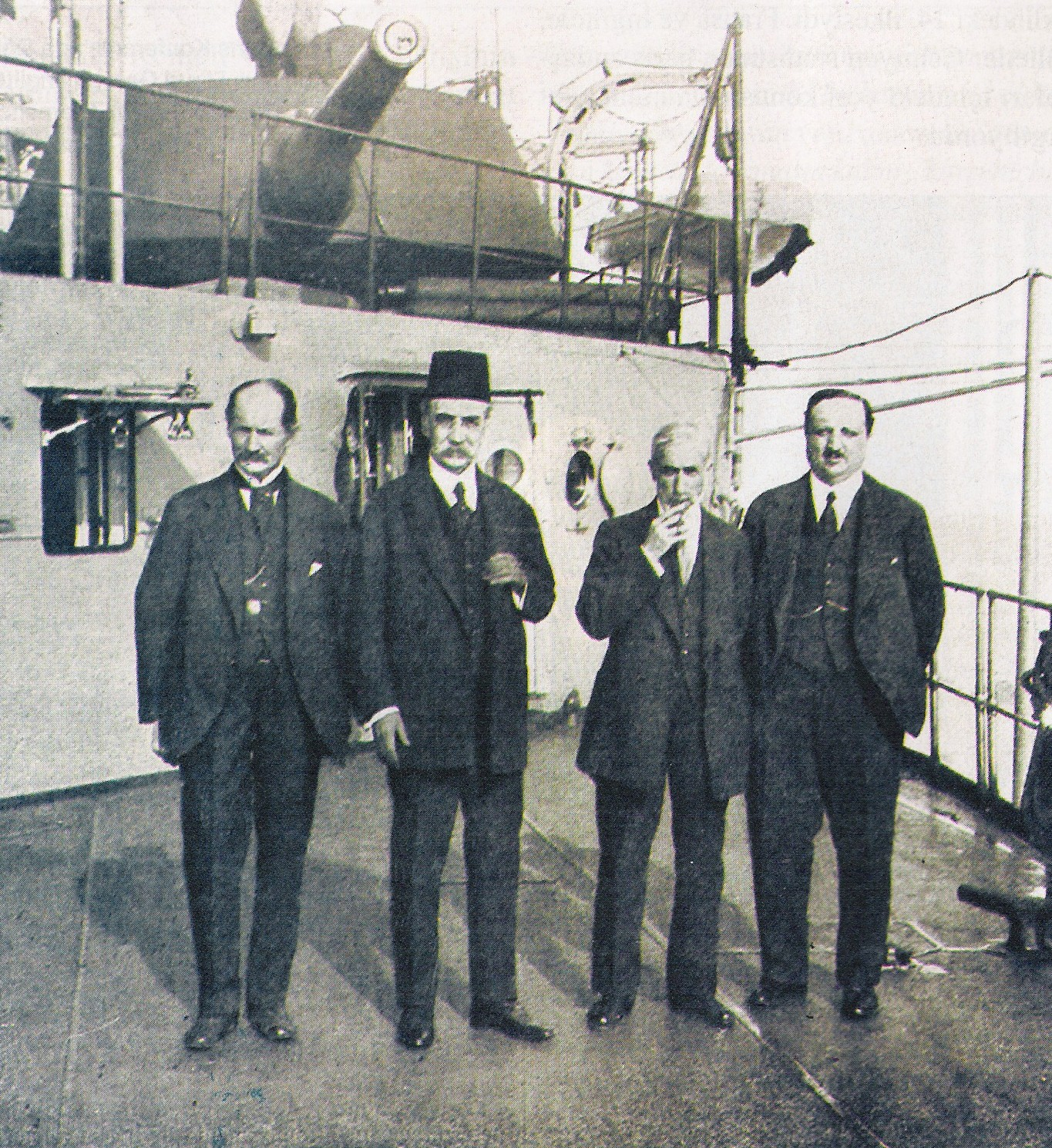 The four signatories of the Treaty of Sevres